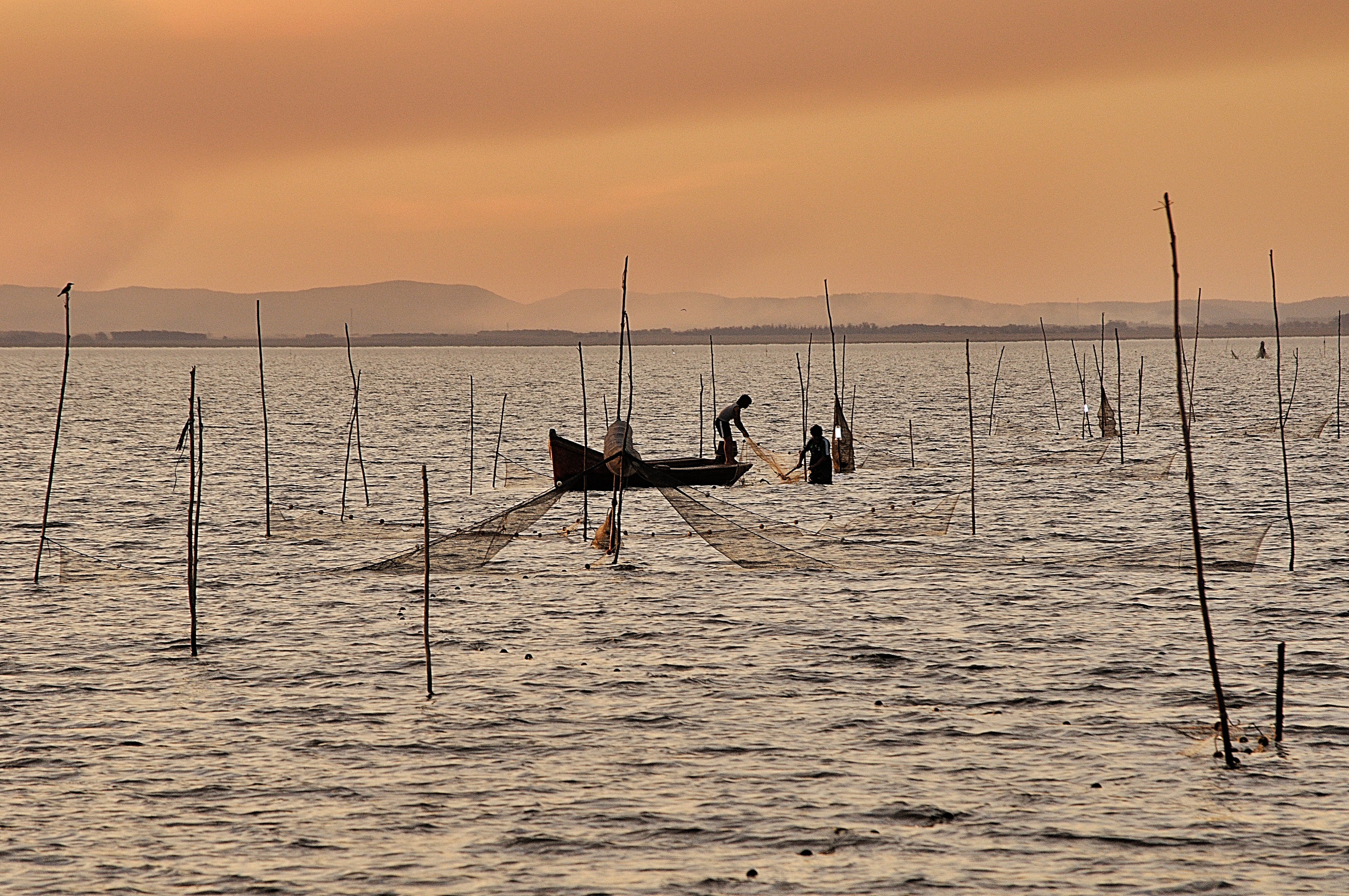 Rocha Lagoon, in Rocha, Uruguay.